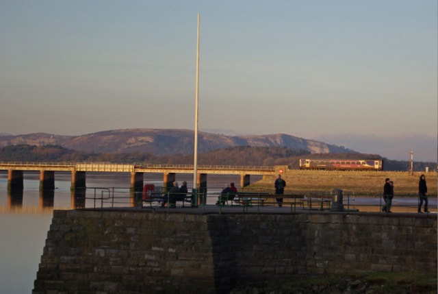 Arnside Pier Despite the cold weather, a few people are out on Arnside's short pier as a train comes off the Kent Viaduct and heads towards Arnside station.